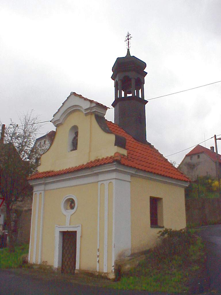 Chapel in Sebuzín.